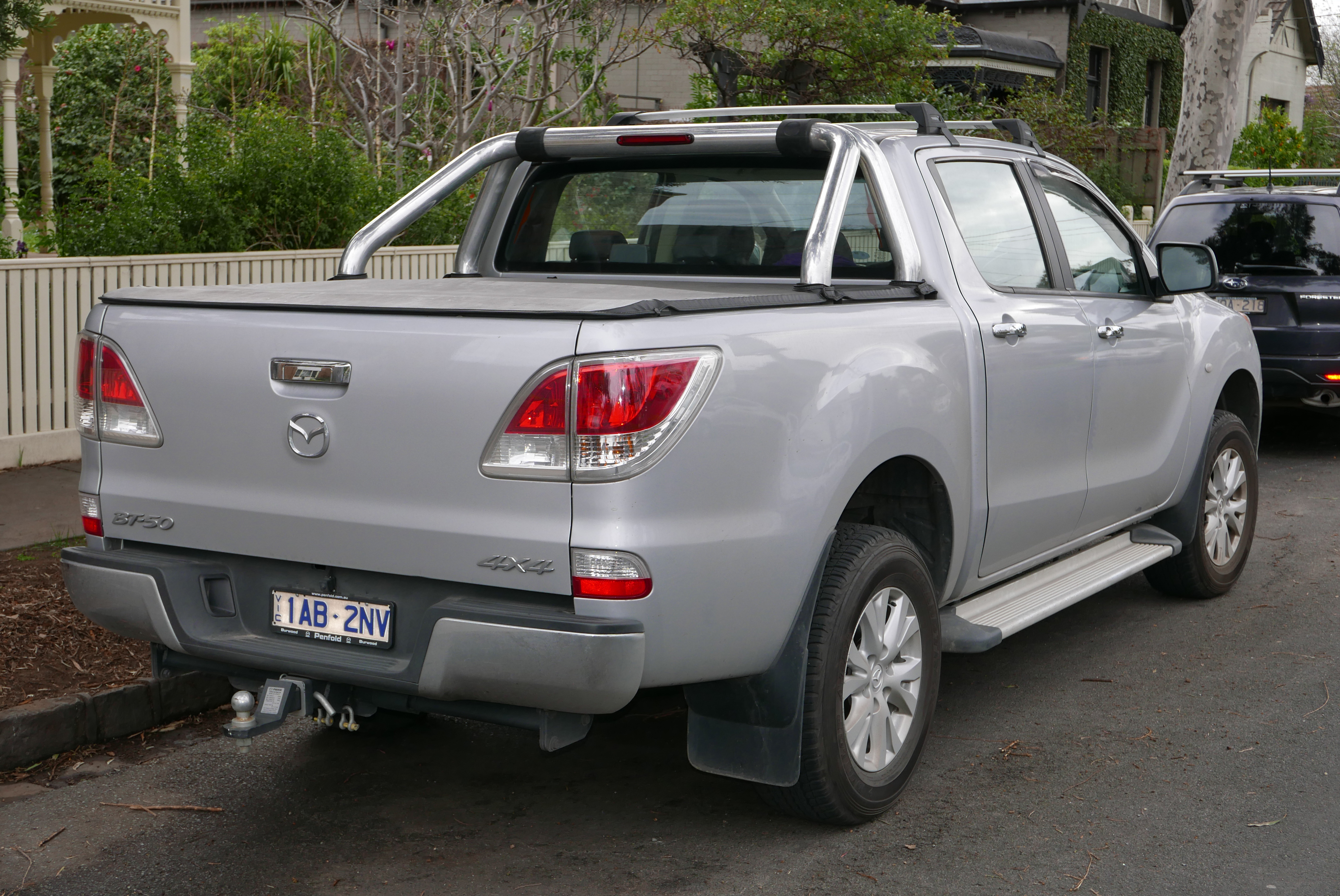 2013 Mazda BT-50 (UP) XTR 4WD 4-door utility. Photographed in Hawthorn, Victoria, Australia. Vehicle registration enquiry resultsJurisdictionVictoriaRegistration1AB2NVChassis codeMM0UP0YF100185990Engine codeP5AT1070787Compliance date2013-09Year of manufacture2013